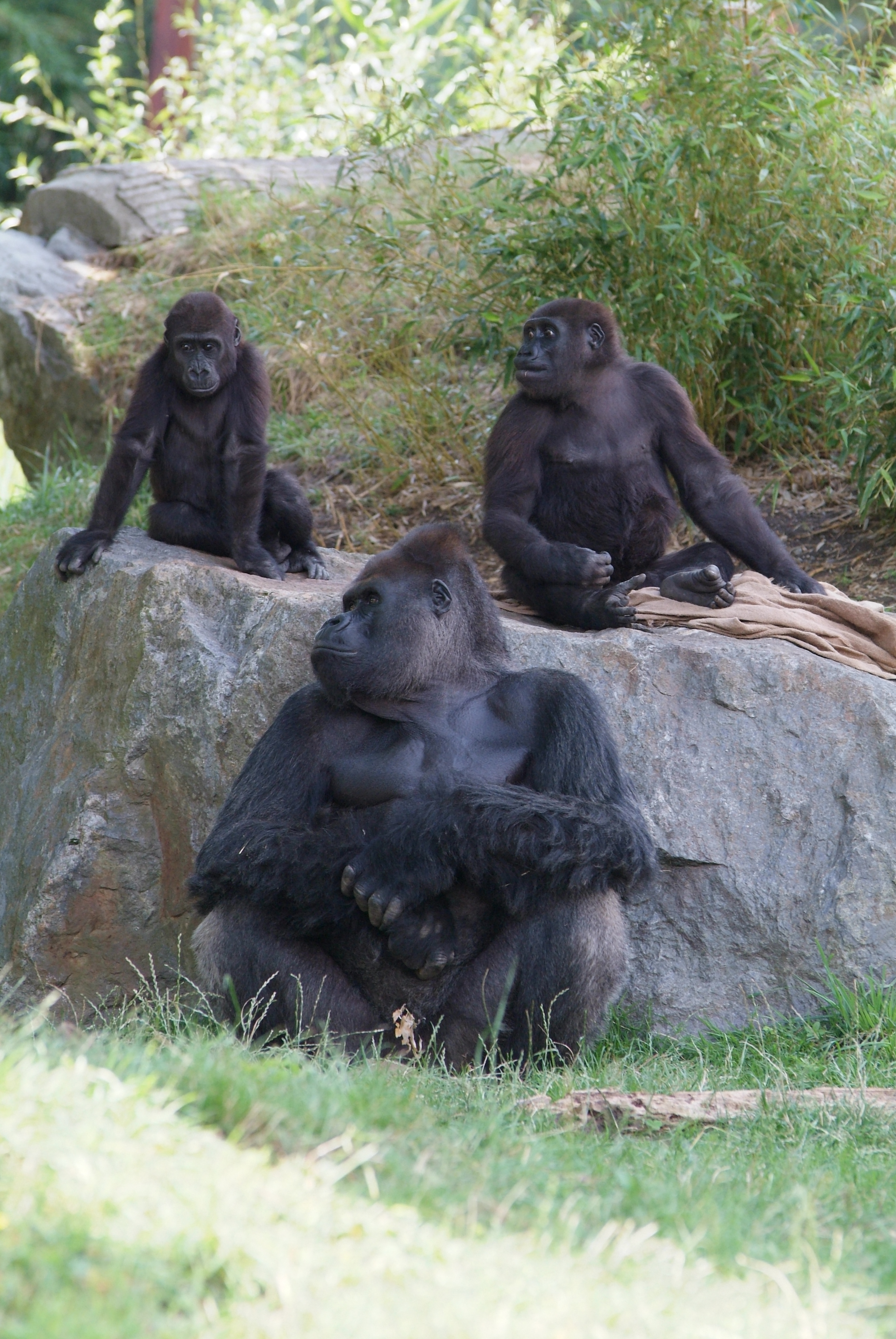 Gorilla family at the Leipzig Zoo